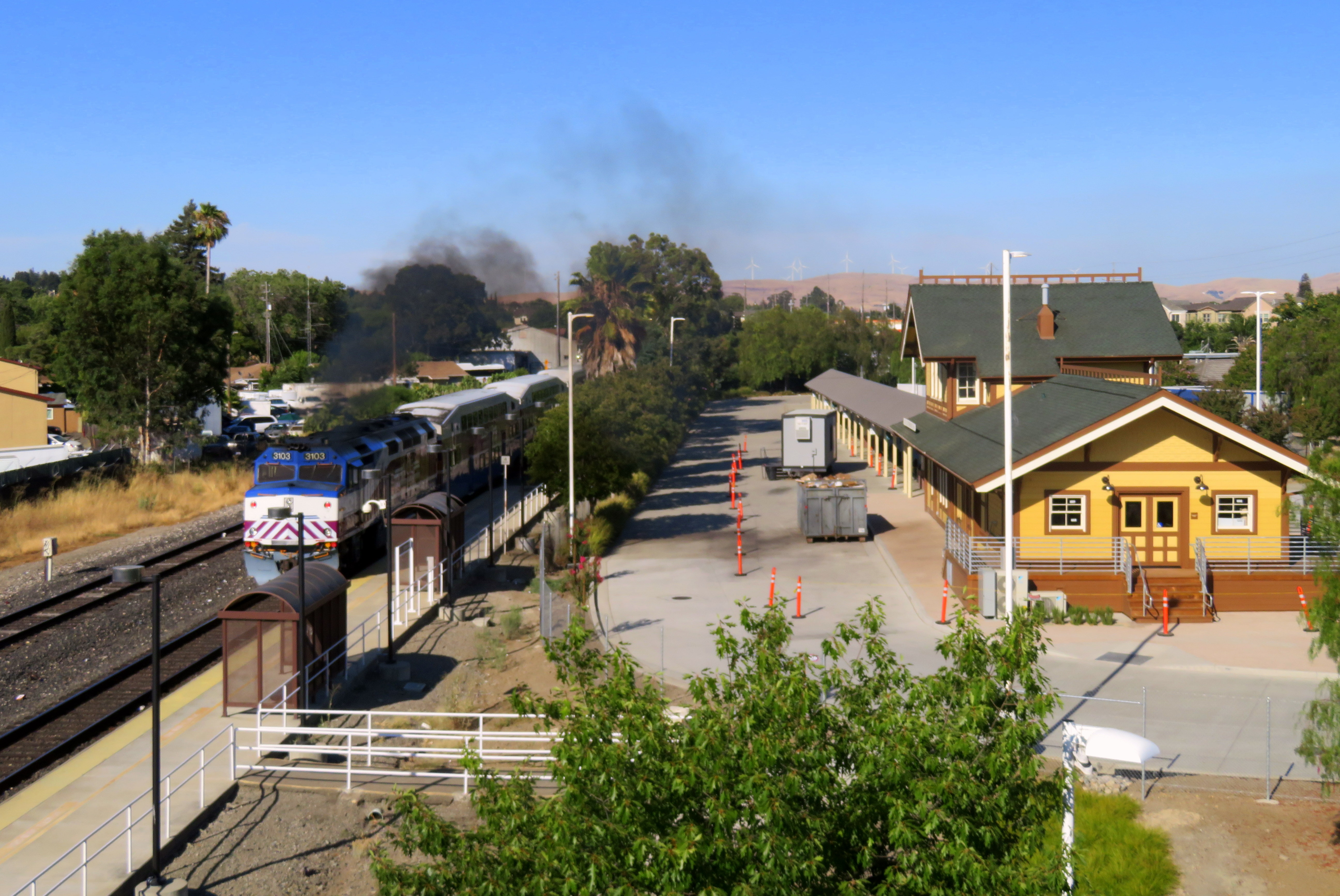 An eastbound ACE train leaving Livermore station in July 2018. At right is the former Southern Pacific station building, which was moved to the ACE station in July 2017 to serve as the bus waiting area at the Livermore Transit Center